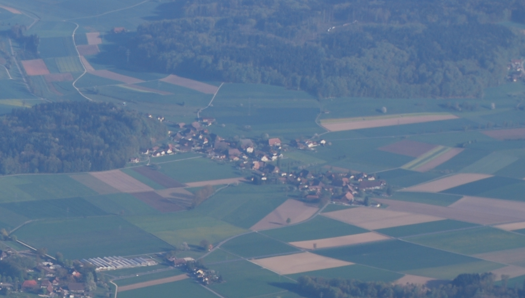 Niederösch, canton of Bern, Switzerland